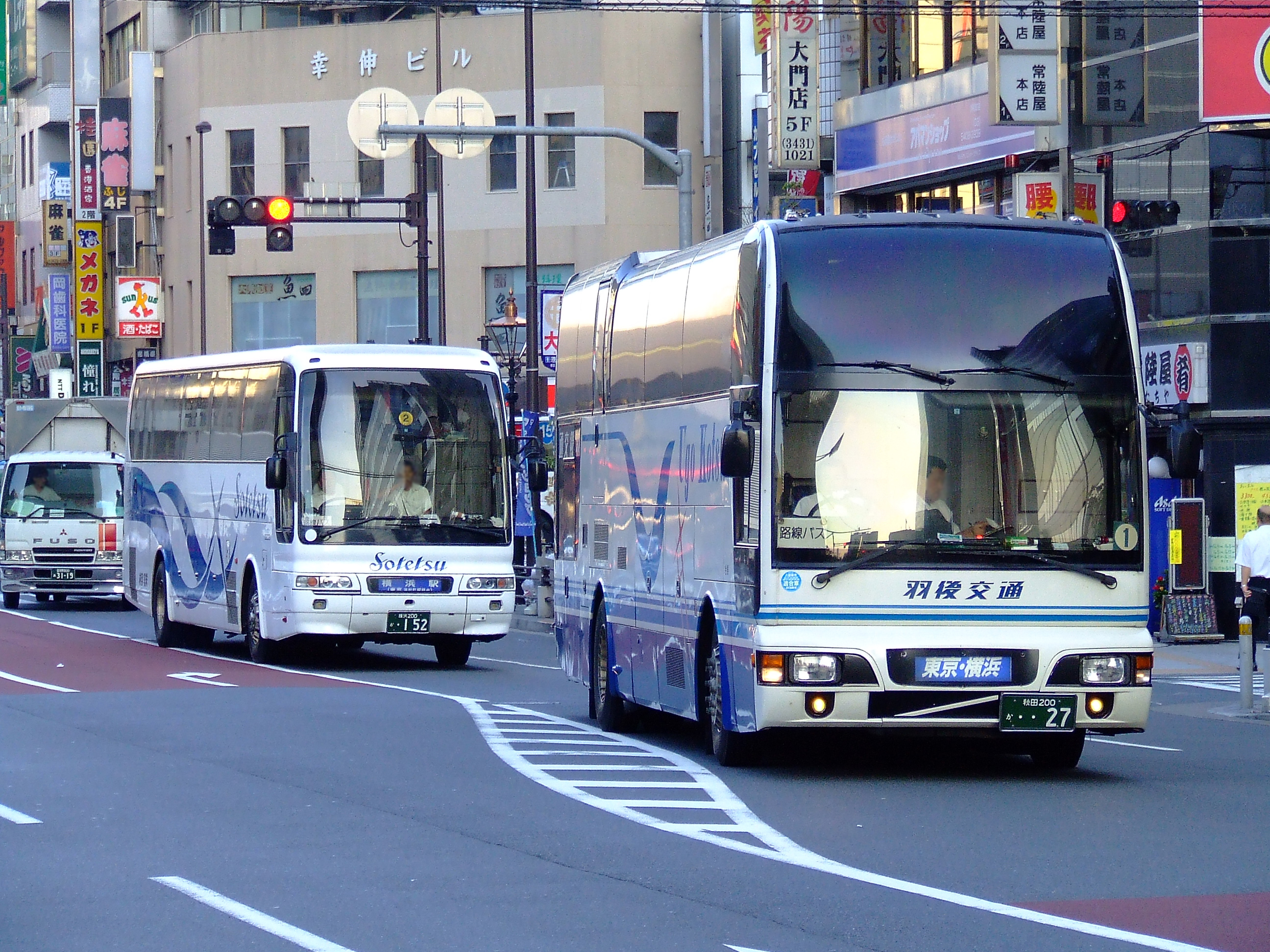 From right to left: FHI Asterope coach with Volvo B10M chassis (Ugo Kotsu operator) and Fuso Aero Queen I (Sōtetsu Bus operator) in Japan.